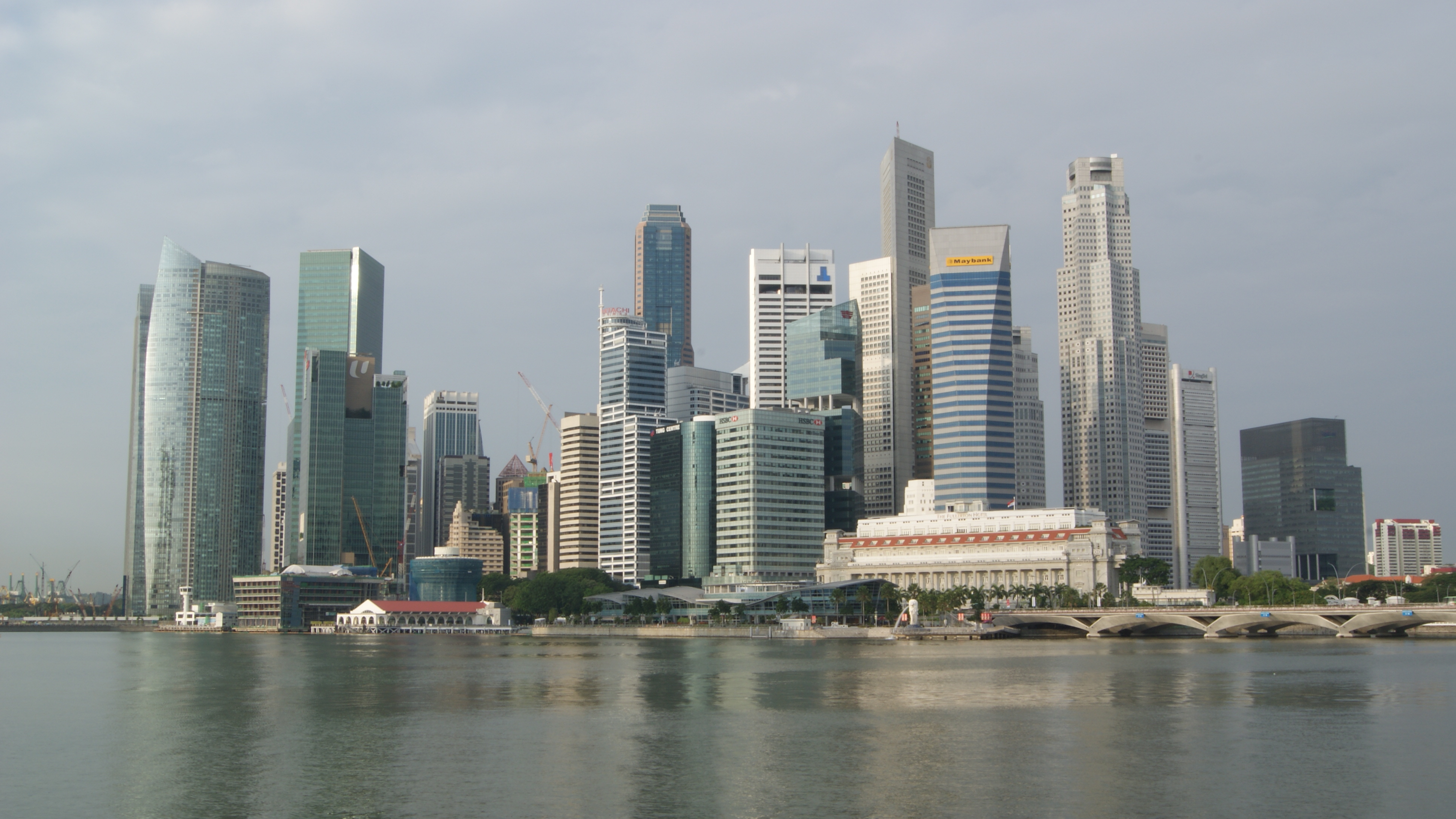 A picture of the Singapore Skyline, early in the morning.